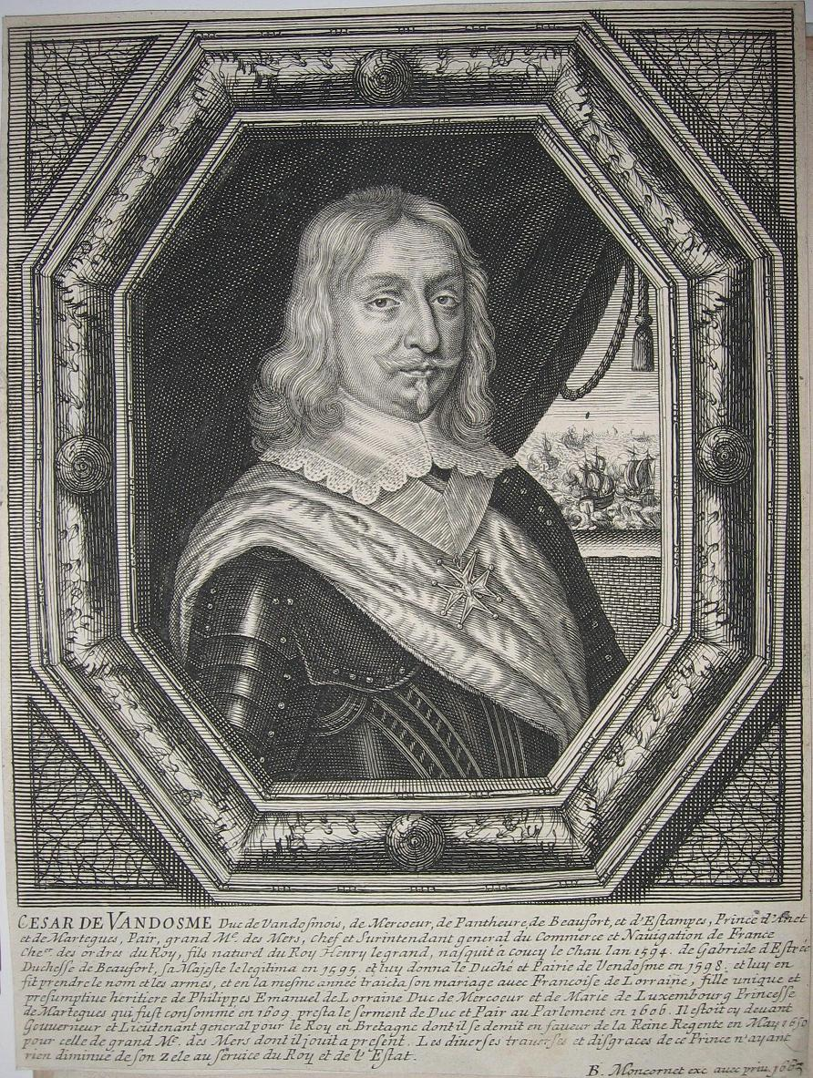 Portrait of César de Bourbon, Duke of Vendôme (1594-1665)